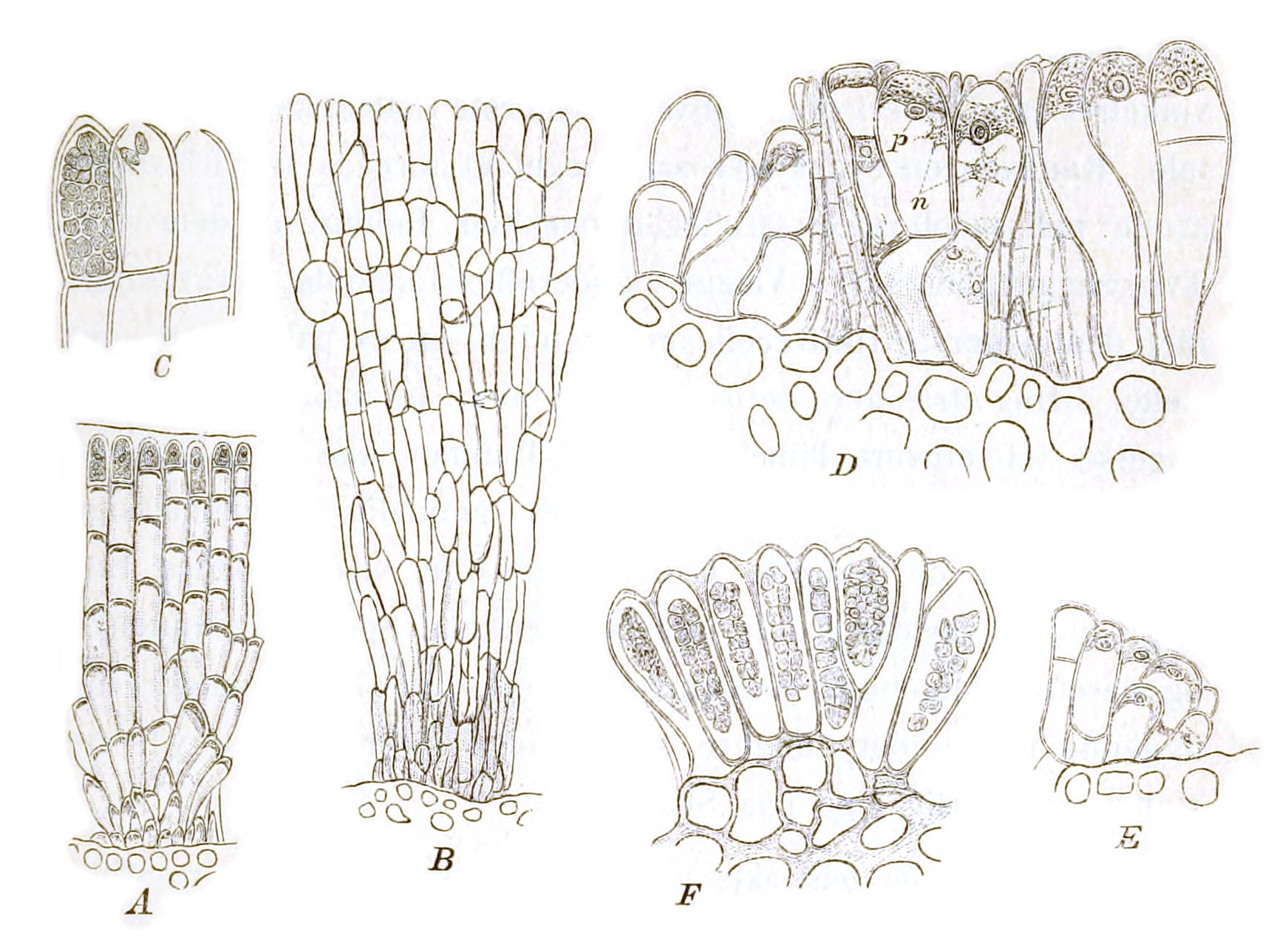 Ulvella confluens Rosenvinge = Pseudopringsheimia confluens (Rosenvinge) Wille